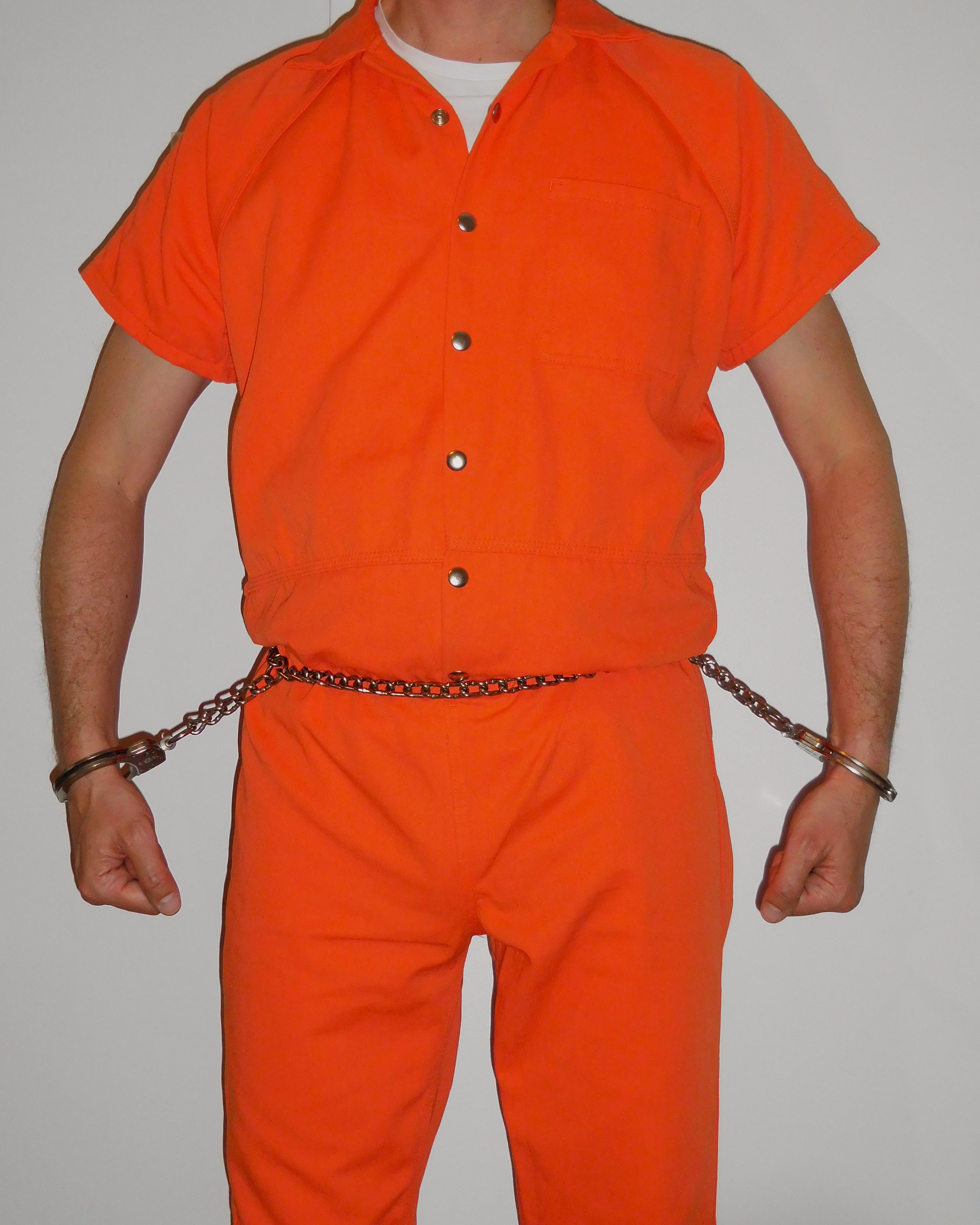 prisoner shackled with a Smith & Wesson Model 1800 belly chain